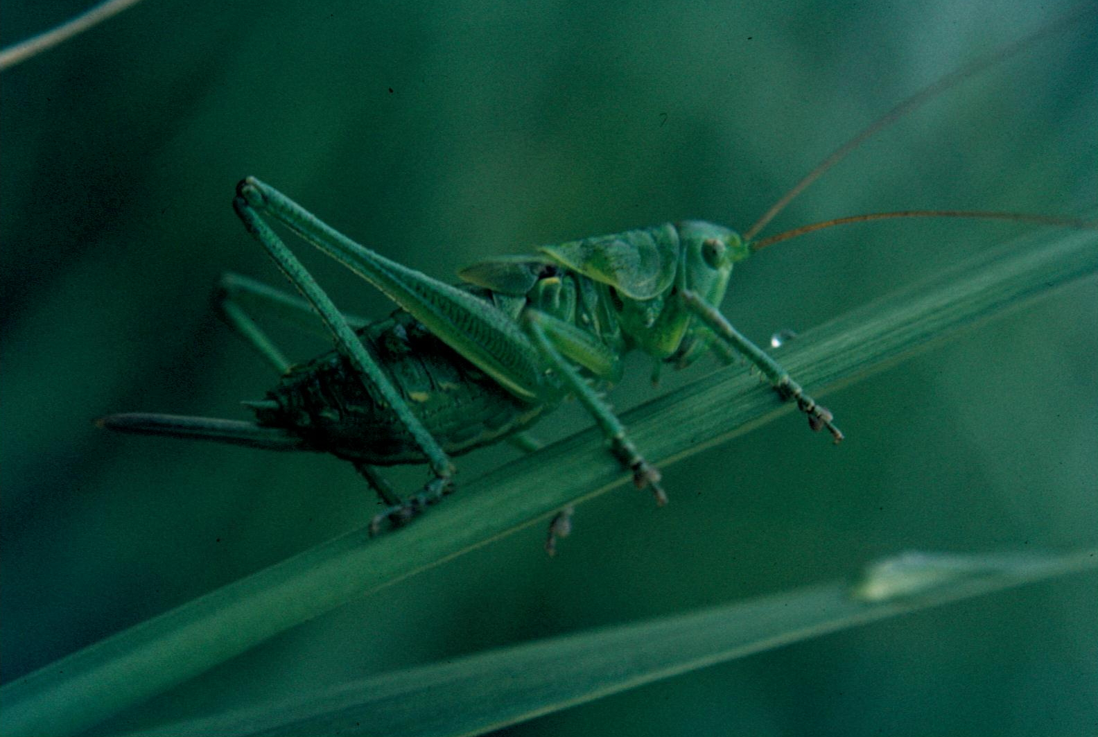 Grass hop, Great Green Bush-Cricket (Tettigonia viridissima), Gelsenkirchen, Germany, 1975